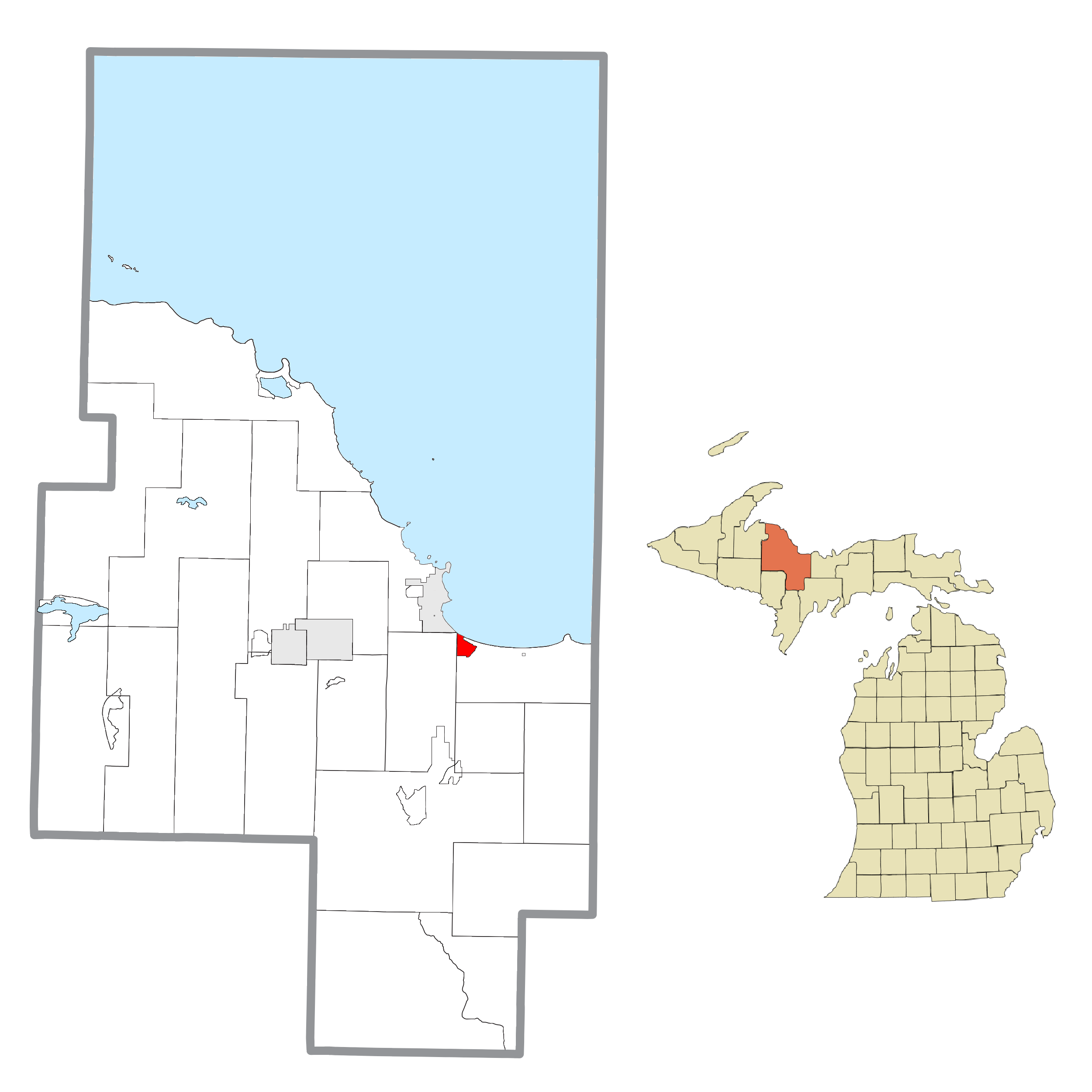 Harvey, MI